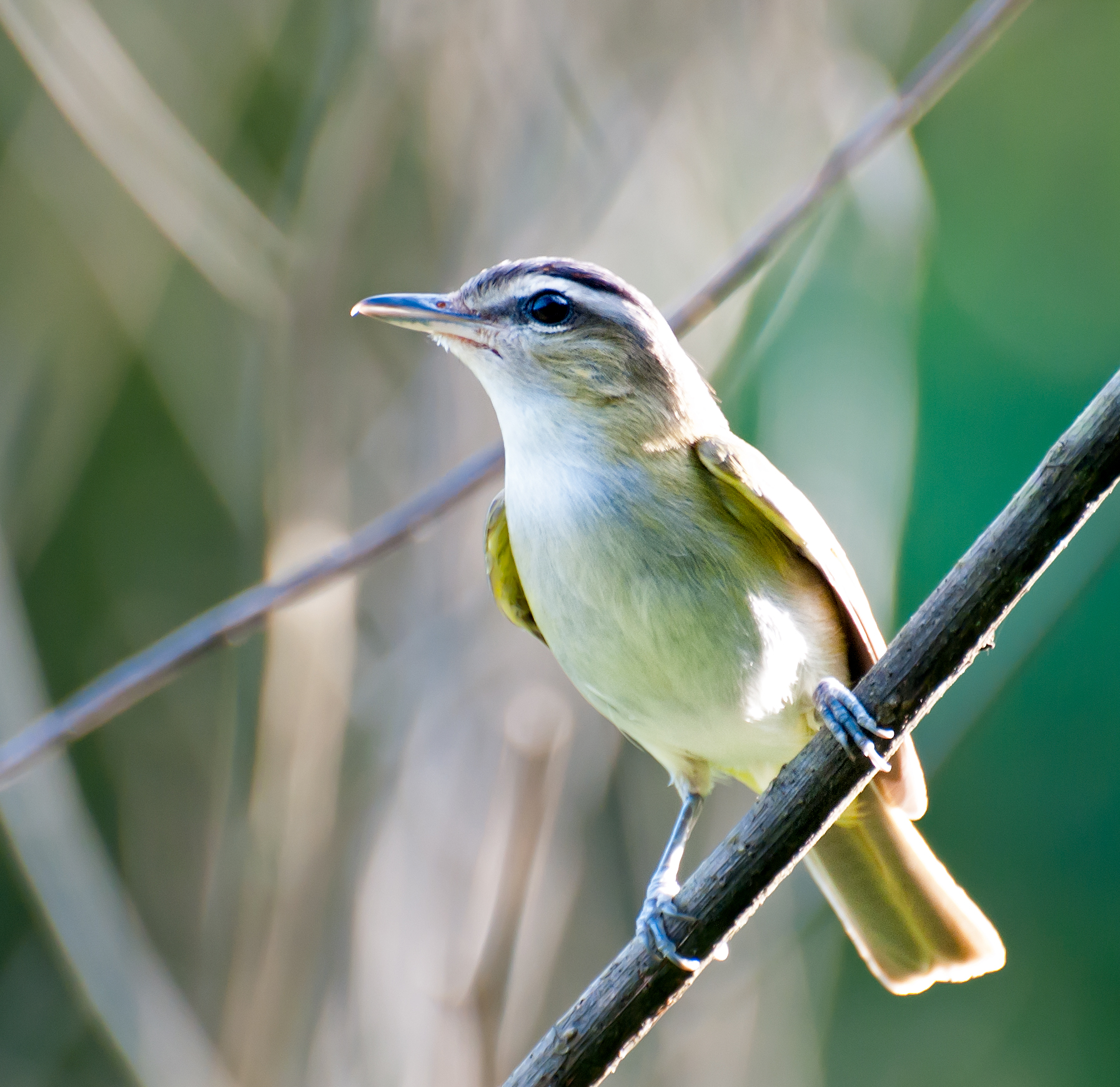 A Chivi Vireo in Vale do Ribeira, Registro, Sao Paolo, Brazil.